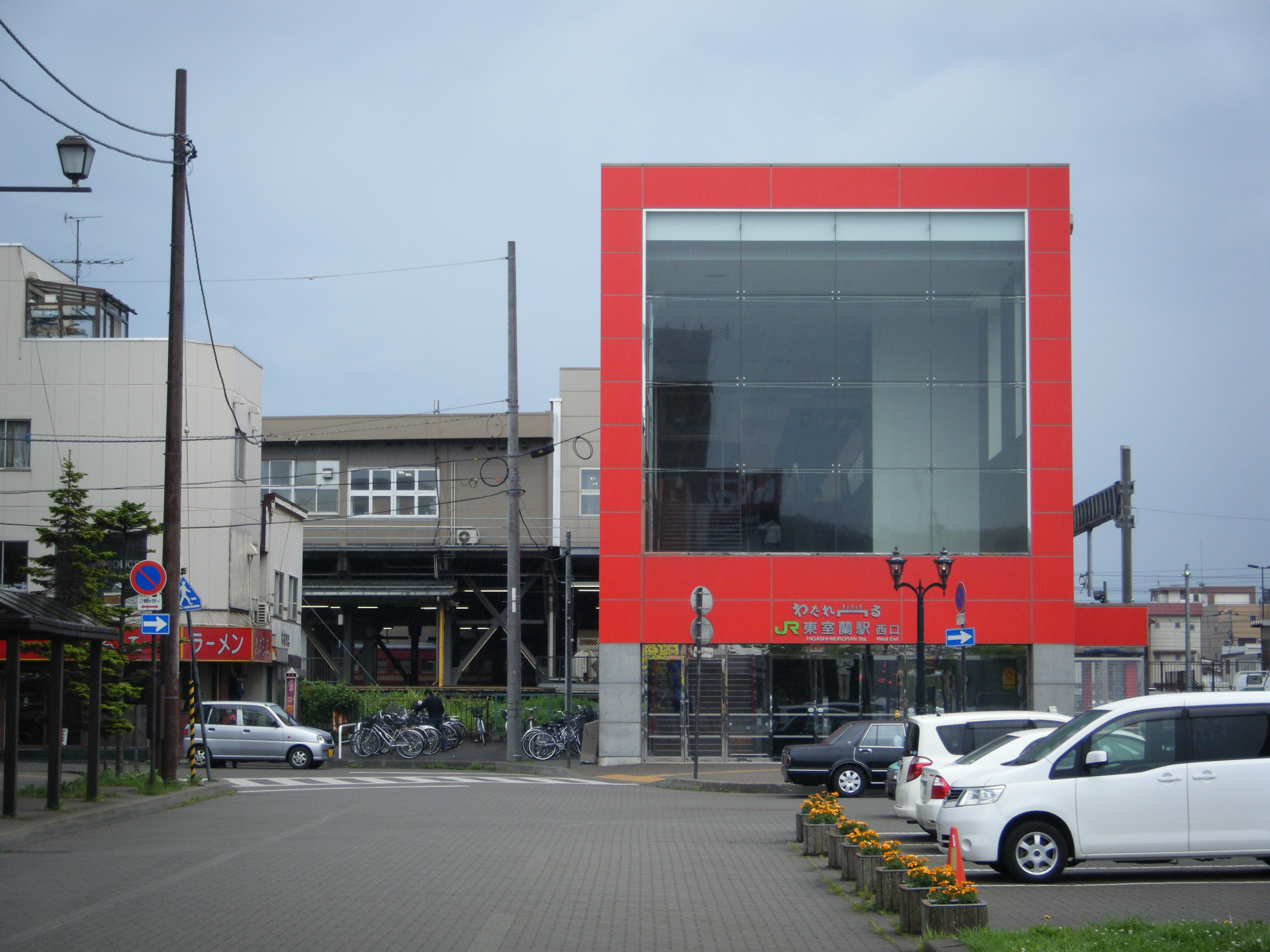 The west entrance to Higashi-Muroran Station in Hokkaido, Japan